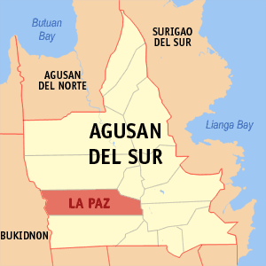 Map of the Agusan del Sur showing the location of La Paz